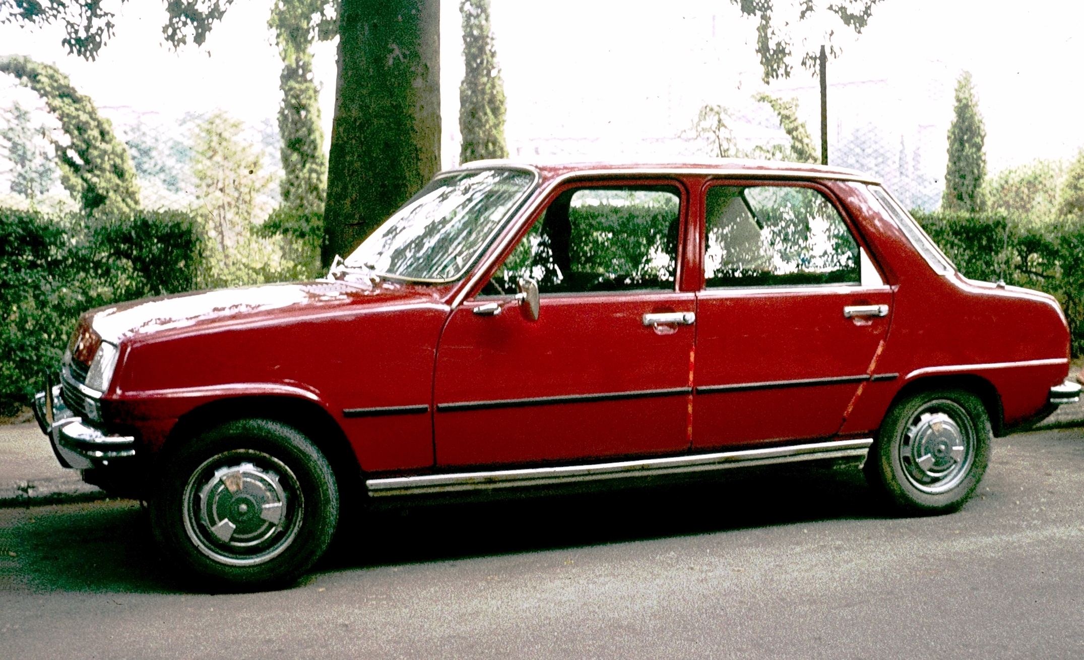 Renault 7 in Siena on the road to the Fortress built in the 1560s at the direction of Cosimo of Medici, as the Dukes of Tuscany (ie Florence) consolidated their newly acquired control over the city.